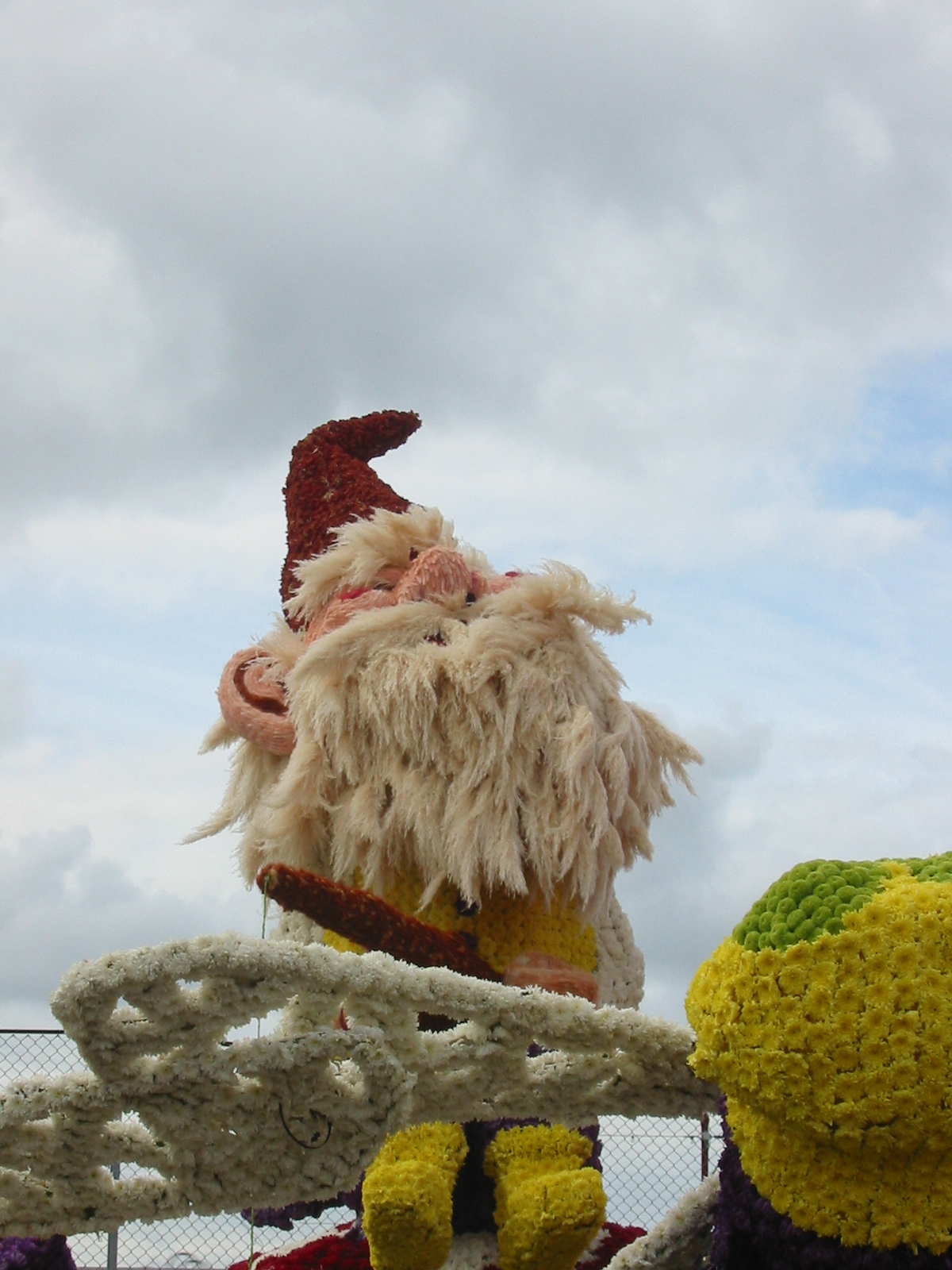 There's No Place Like Gnome - Grouville Too, 2006